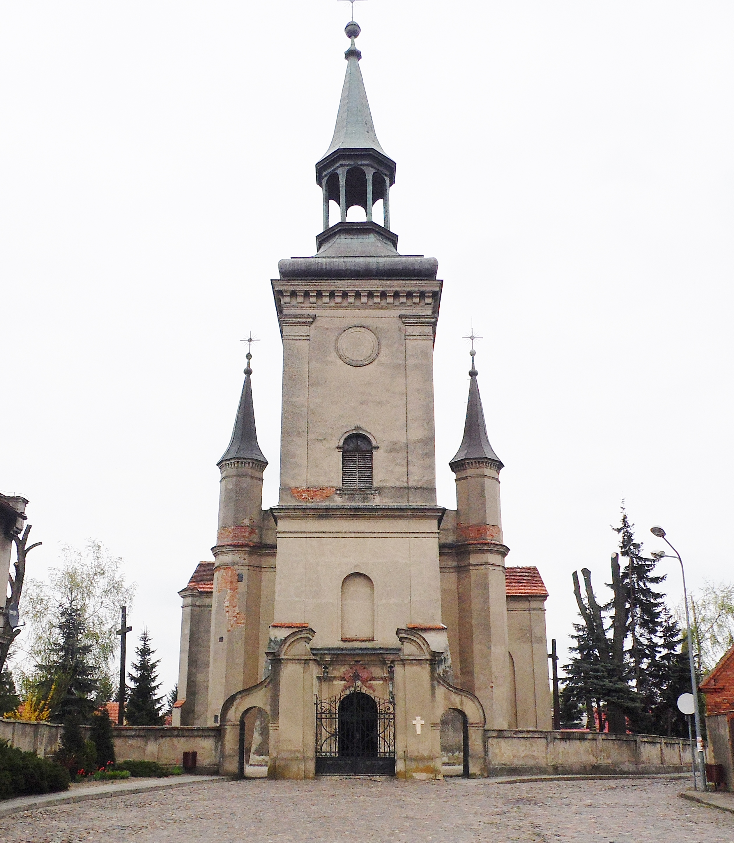 Parish Church. Holy Trinity Church of the sixteenth century, 1869, Osieczno / area. Leszno / province. Greater Poland / Poland